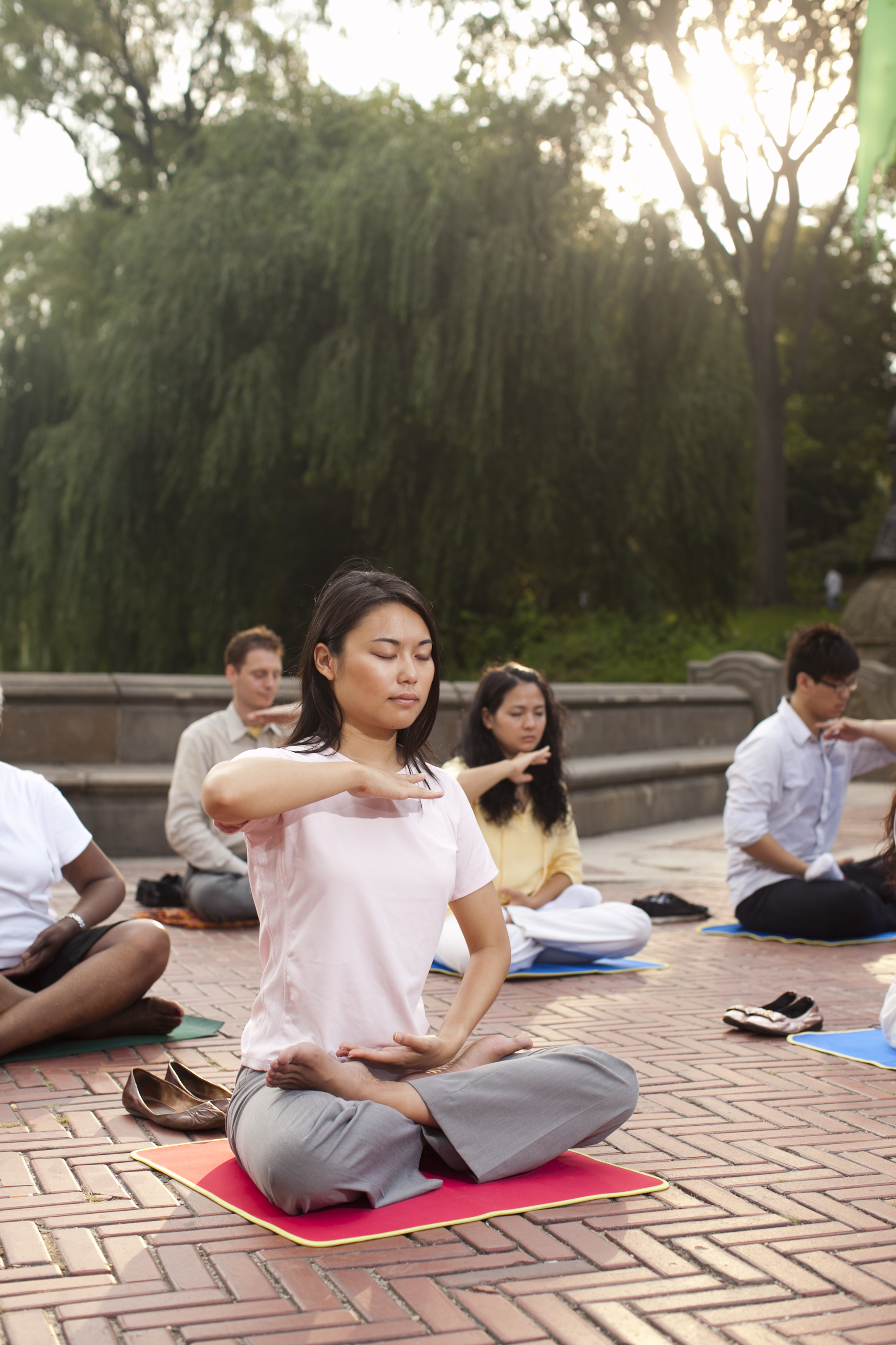 Falun Gong practitioners do the fifth exercise of Falun Gong, which is a sitting meditation (there are also four standing exercises) in a park in Manhattan.